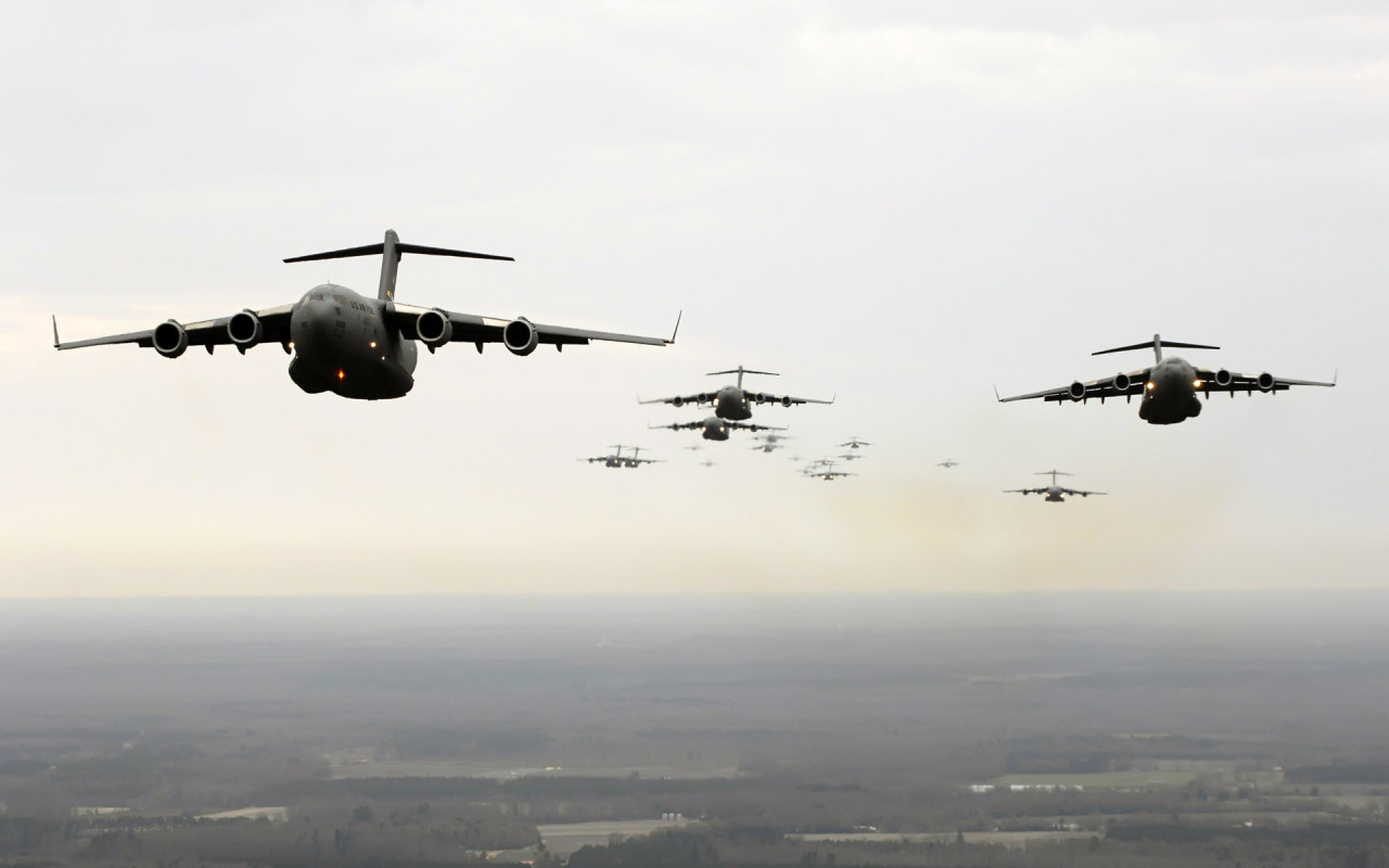 Twenty C-17 Globemaster IIIs participate in a Large Formation Exercise Dec. 21 over the coast of Charleston, S.C. The C-17s, assigned to the 437th and 315th Airlift Wings at Charleston AFB, were part of the largest formation in history from a single base and demonstrated the strategic airdrop capability of the Air Force.